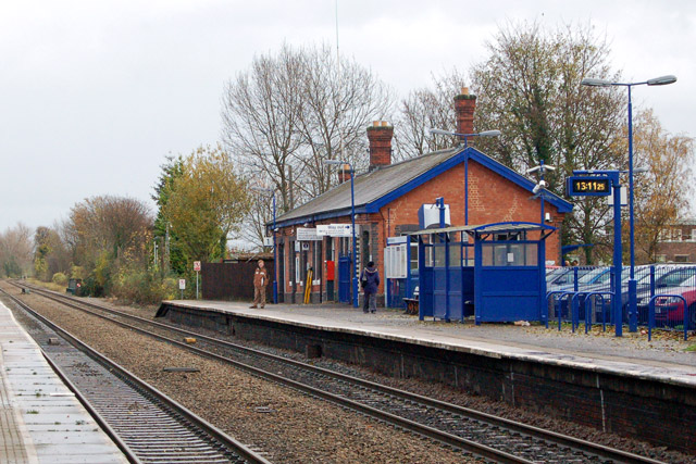 Warwick railway station photo survey (14) Looking east from platform 2 to the main station building on platform 1 at Warwick railway station. Warwick station was opened in 1852 by the Great Western railway (GWR) as part of its route from Oxford to Birmingham. It is located approximately half-a-mile from the town centre and appears rather modest for such an historic town. Today, Warwick station is managed by Chiltern Railways who also operate the majority of the train services although the station is also served by London Midland and CrossCountry. The main station building and entrance is at the end of Station Road (a driveway from Coventry Road) on the south side of the line. There is also a smaller entrance from Woodcote Road on the north side of the line. The red brick station building has changed little since its construction and it houses a waiting room, ticket office, staff rooms and a taxi business. Warwick station's two facing platforms are connected by an underpass. The platforms are staggered slightly and are signalled for bi-directional running. The up platform (for London-bound services) is numbered 2 and the down platform (for Birmingham-bound services) is numbered 1. There is an indoor waiting room in the main building on platform 1 and also small waiting shelters on both platforms. The station once had extensive goods sidings, a goods shed, a six-ton crane and a coal depot. Goods facilities declined rapidly during the 1950s and 60s and Warwick's goods yard closed in 1969.